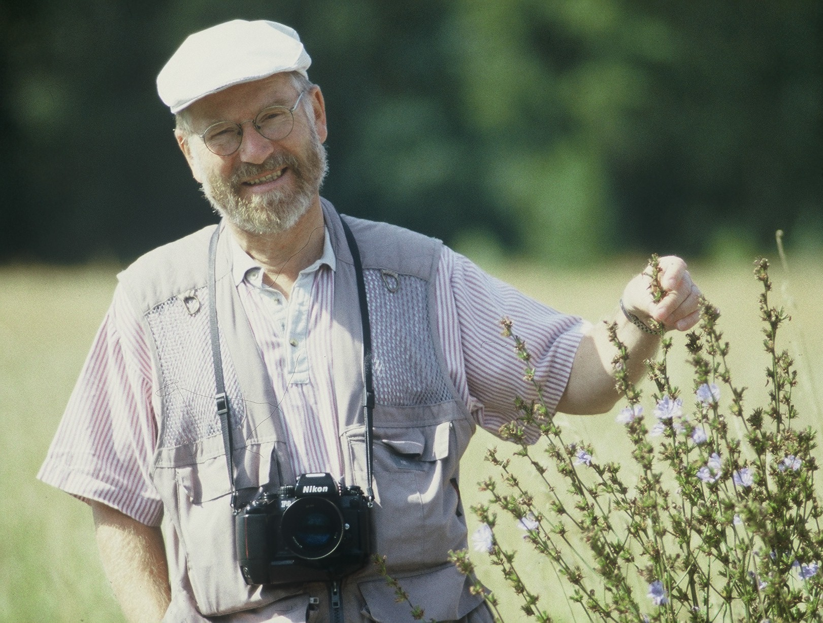 Hermann Benjes